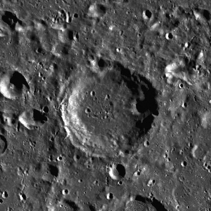 Cori lunar crater LROC image . There are several secondaries from Orientale basin located som 1.700 km to the east.